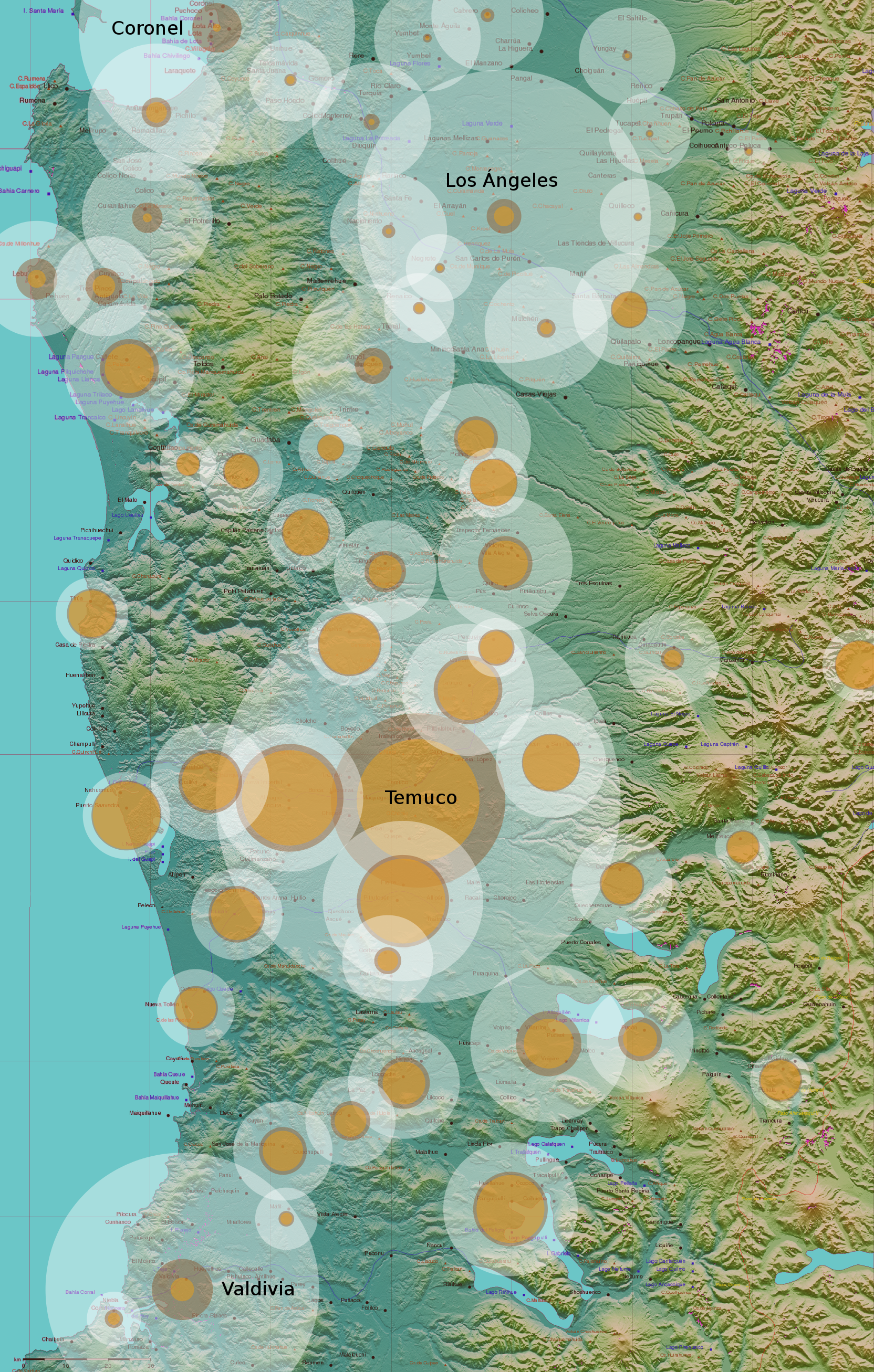 Core region of mapuche population 2002 by counties. Orange: rural mapuche; dark: urban mapuche; white: non-mapuche inhabitants. Surfaces of circles are adjusted to 40 inhabitants/sqkm.